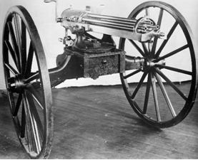 Gattling gun model